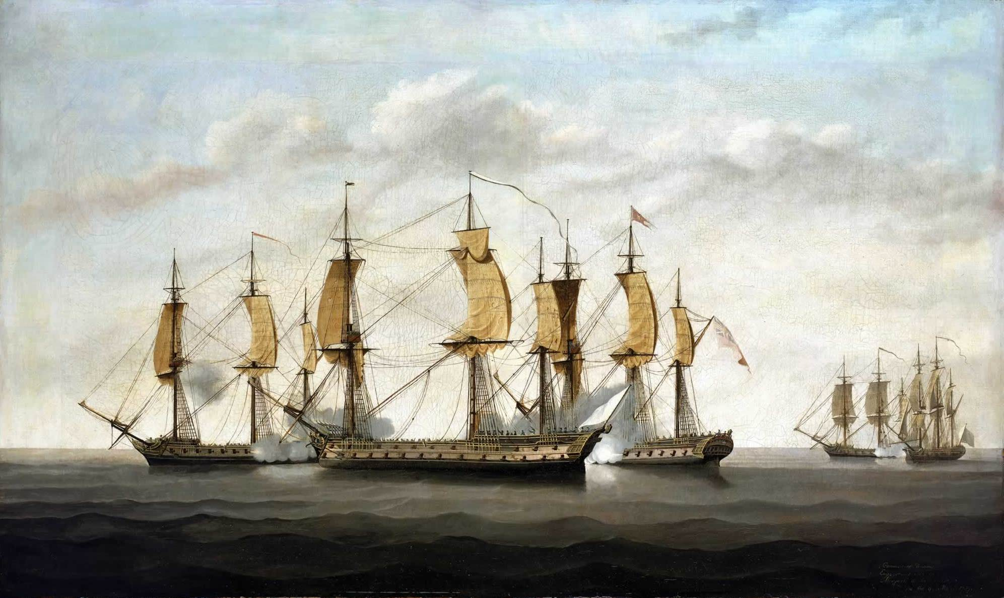 Engagement between three East Indiamen and two French vessels, 8 March 1757. A painting of an engagement between three East India Company ships and two French vessels, 8 March 1757'. Three homeward bound East Indiamen, the 'Suffolk', 'Houghton' and 'Godolphin' were intercepted by two French privateers off the Cape of Good Hope. The merchantmen were heavily laden and represented great riches for the French privateers. However they were unable to capture them when the Indiamen formed a line and beat them off after a three hour engagement.